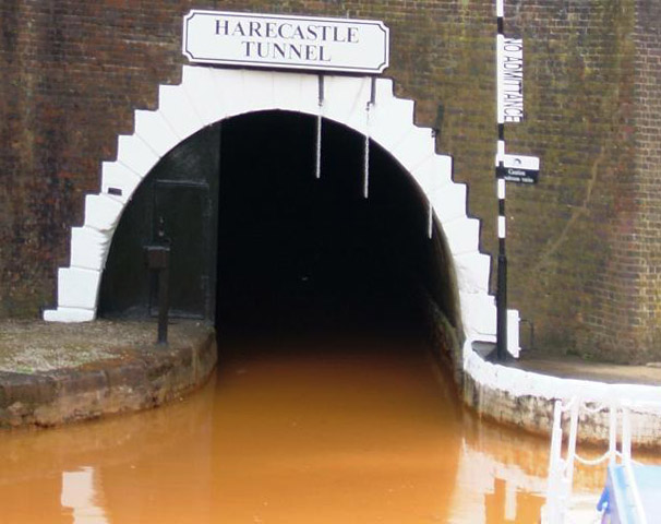 The 1827 Harecastle Tunnel